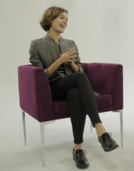 Sophie Charlotte, Brazilian actress, during interview at TV Brasil.